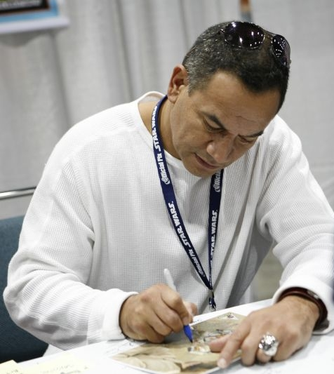 Actor Temuera Morrison at Celebration IV in 2007.